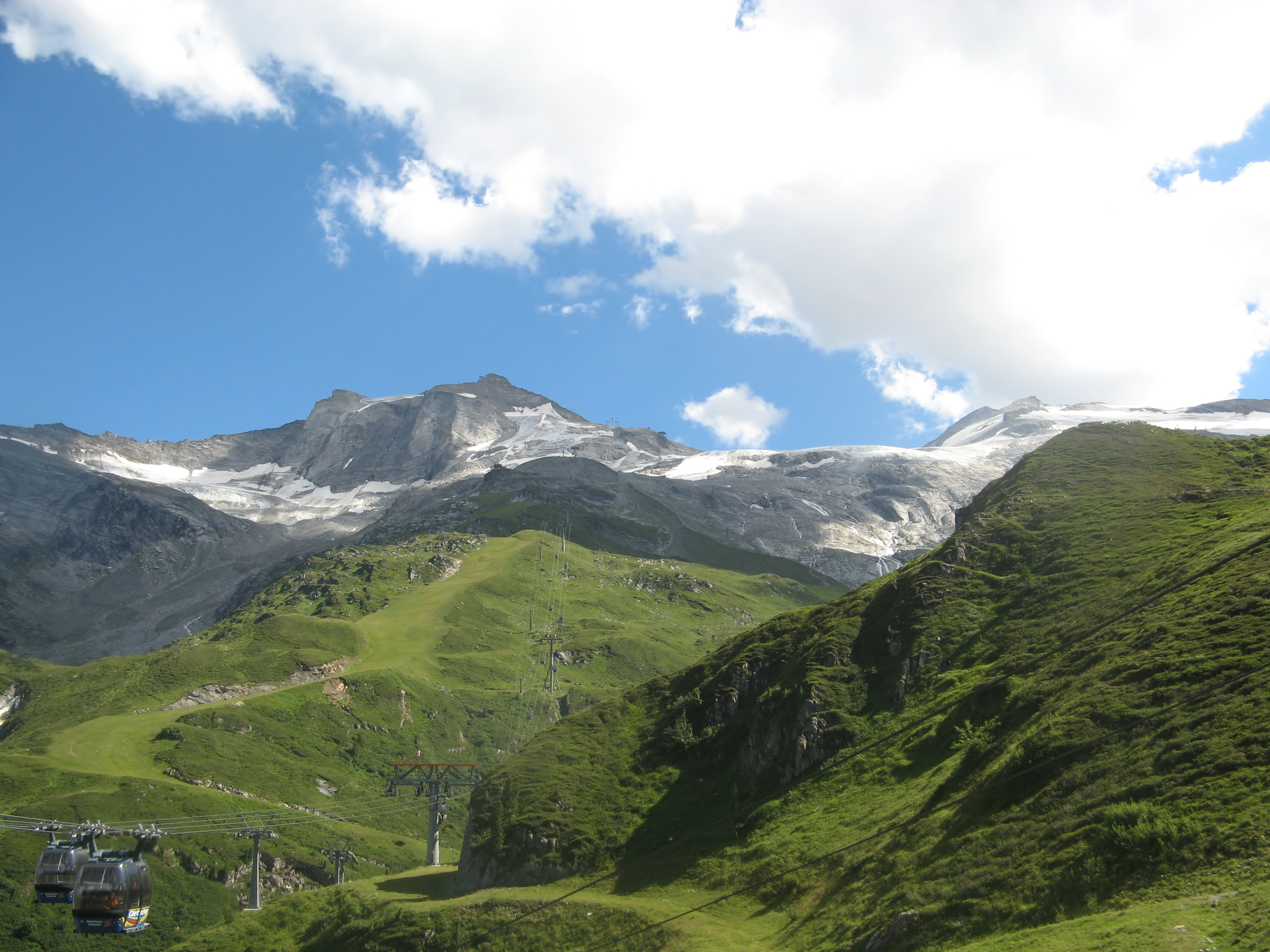 De Hintertuxer Gletscher